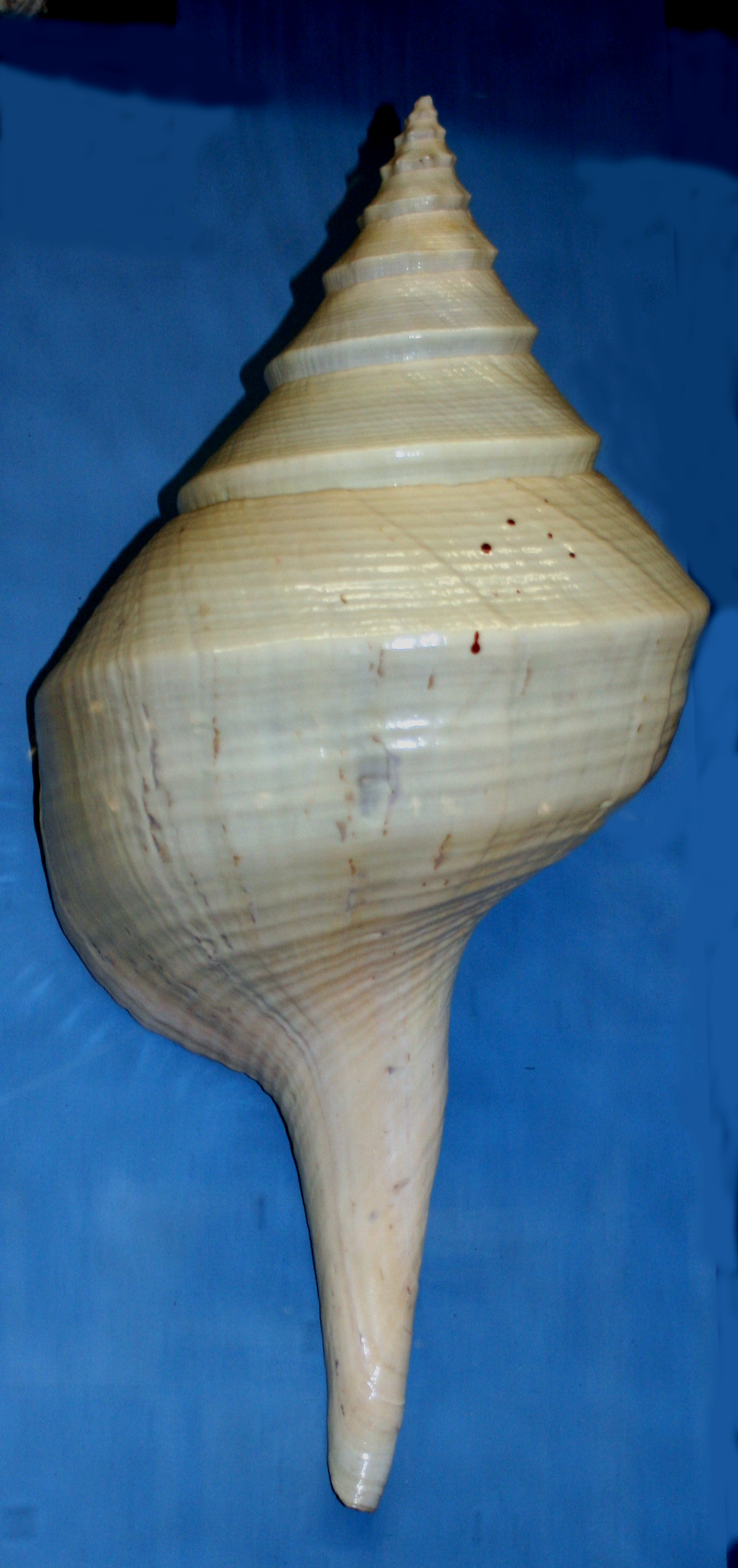 Shell of the sea snail Syrinx aruanus aka (Fusus proboscidiferus) from the National Museum, in Prague, Czech Republic